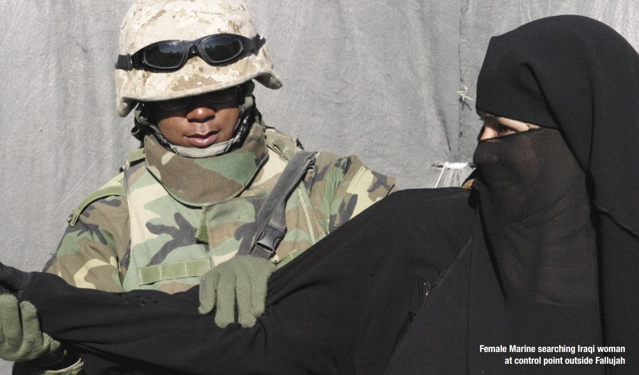 U. S. Marine (reported to be a female serviceman) searching Iraqi woman at control point outside Fallujah.